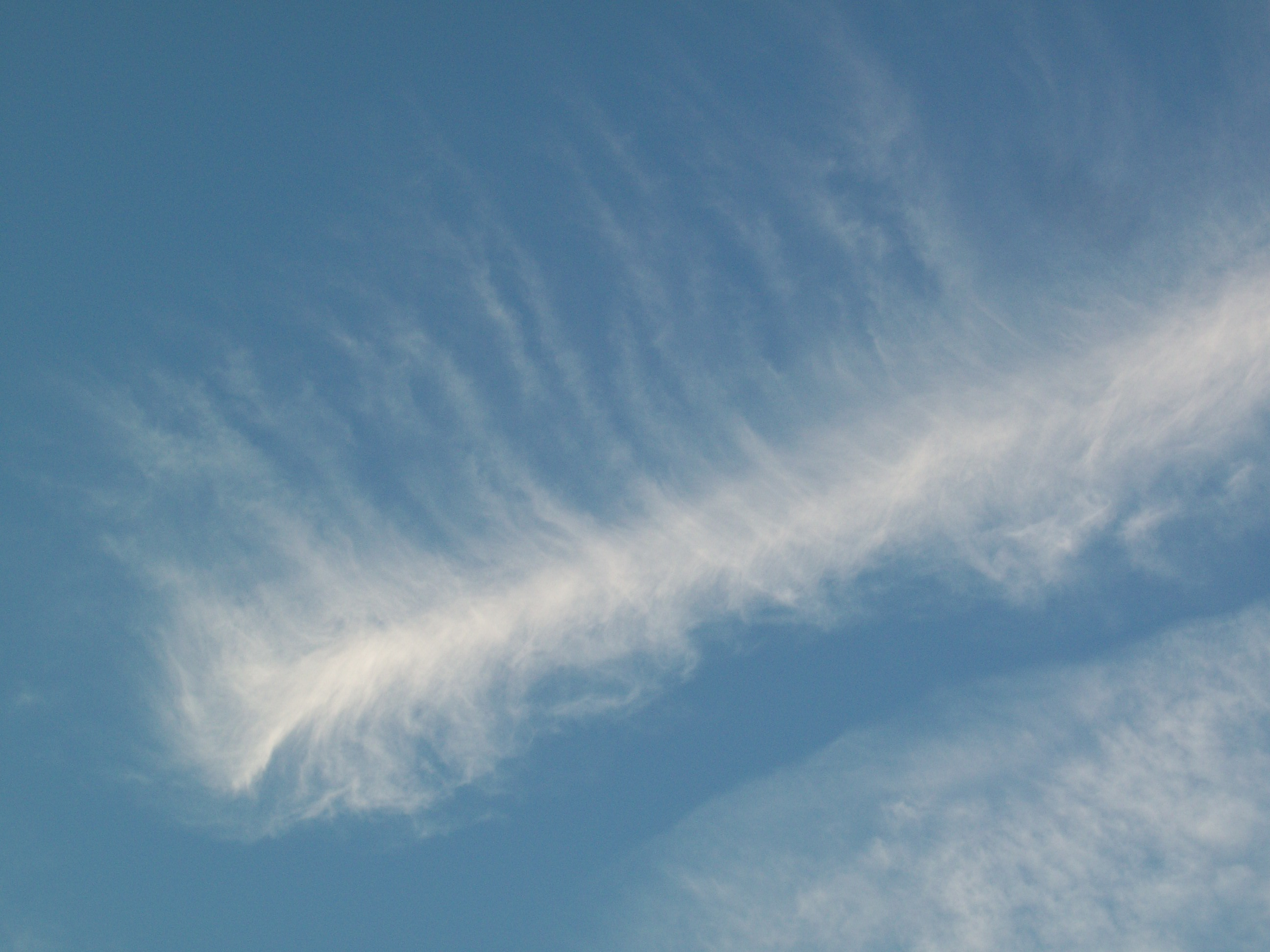 Cirrus vertebratus cloud over Athens